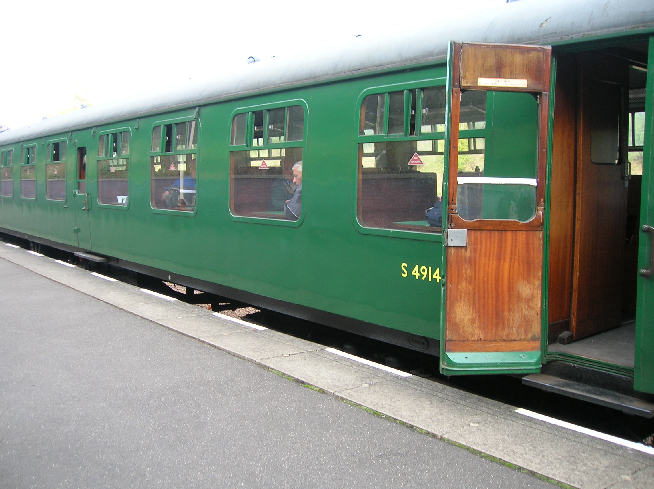 Southern Region TSO S4914 at Leicester North.